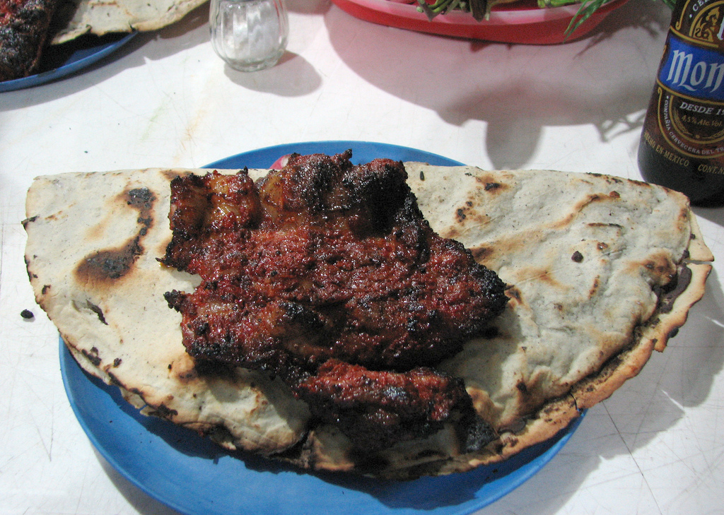 A folded Tlayuda topped with skirt steak, as commonly served in Oaxaca, Oaxaca, Mexico